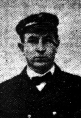 Chief Watertender Patrick Reid, United States Navy, after being presented with the Medal of Honor at the White House.